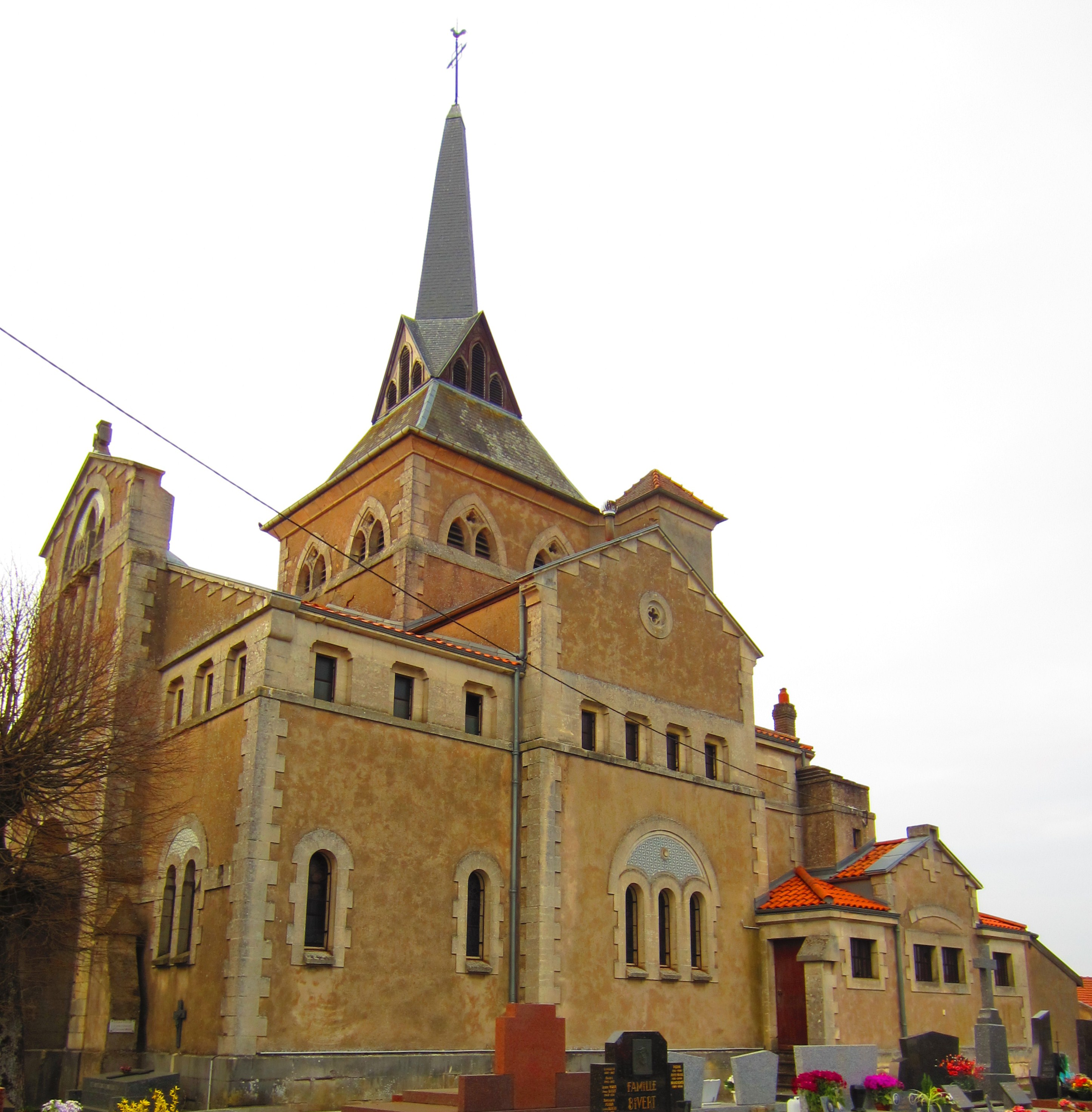 Eton church